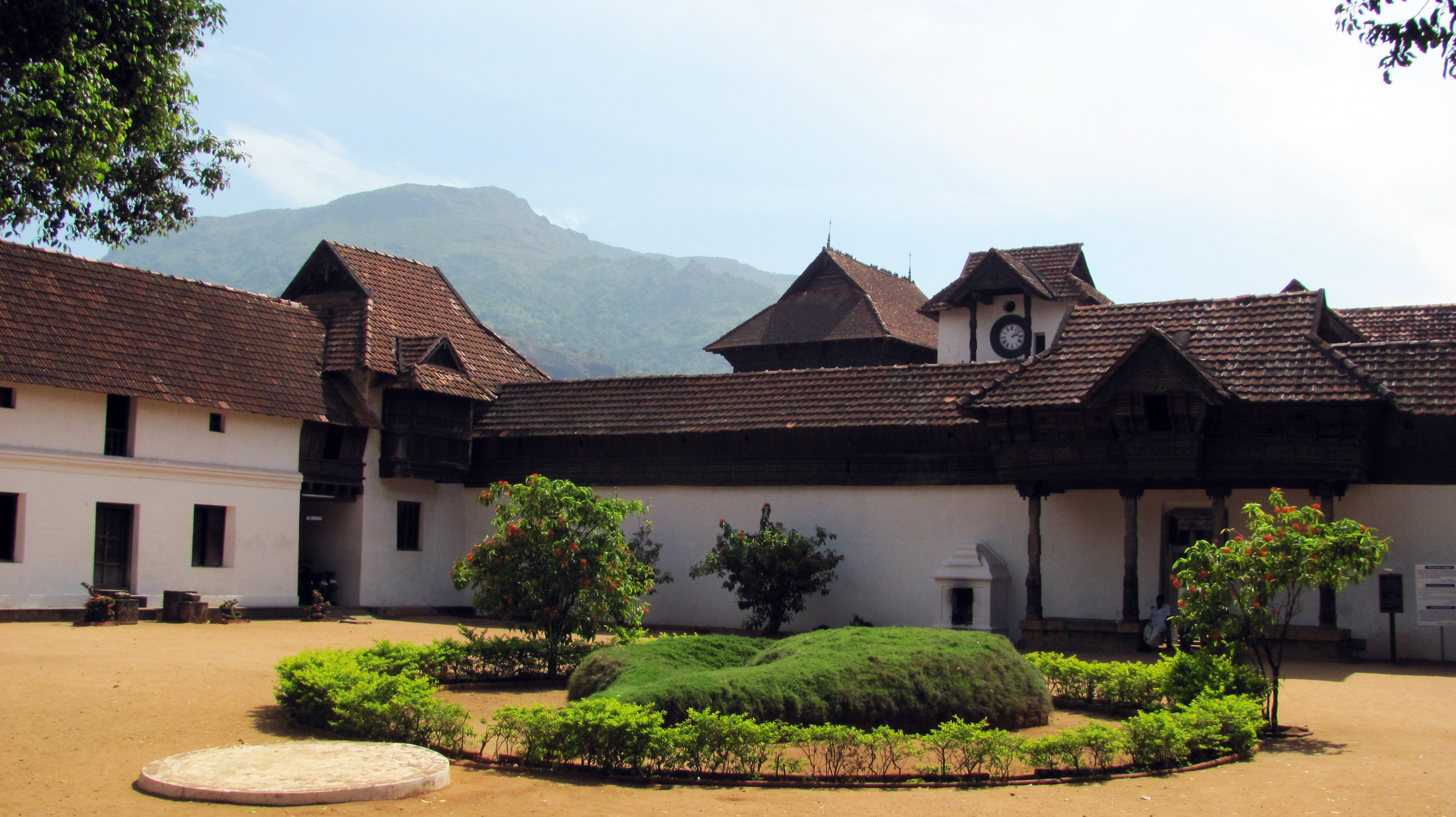 Padmanapuram palace